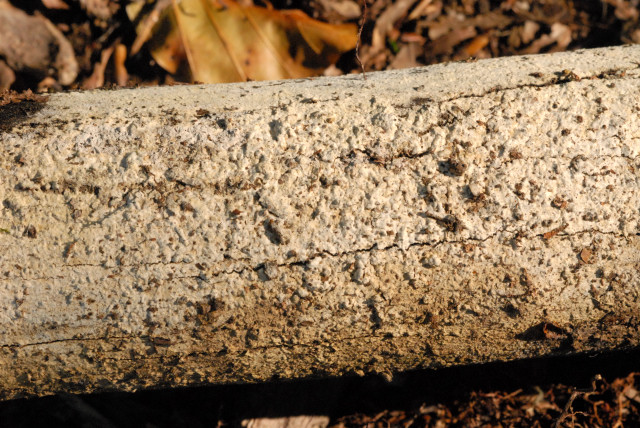 Botryobasidium subcoronatum from Commanster, Belgium. If you think this is a different taxon, please contact James Lindsey.